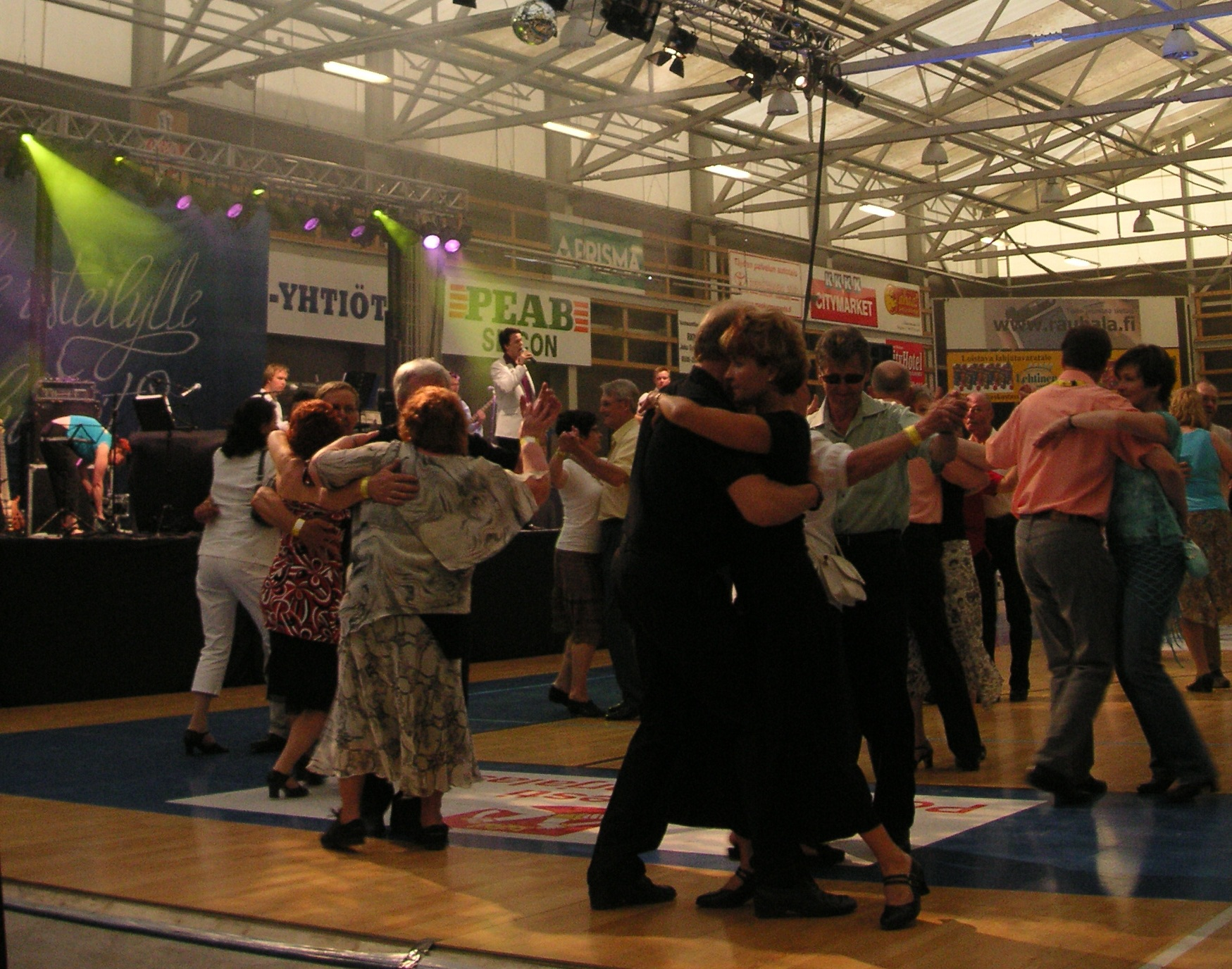 Finnish tango